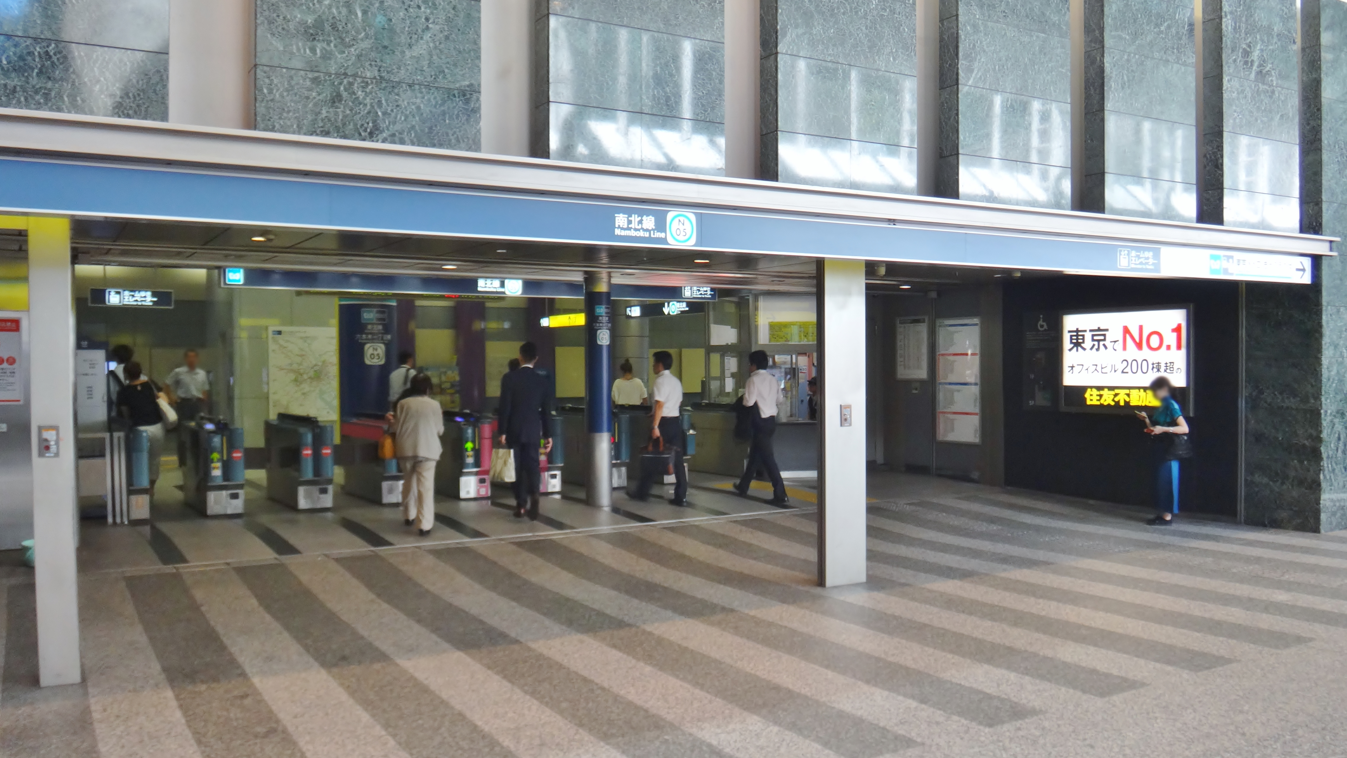 The ticket barriers at Roppongi-itchome Station on the Tokyo Metro Namboku Line in Tokyo, Japan